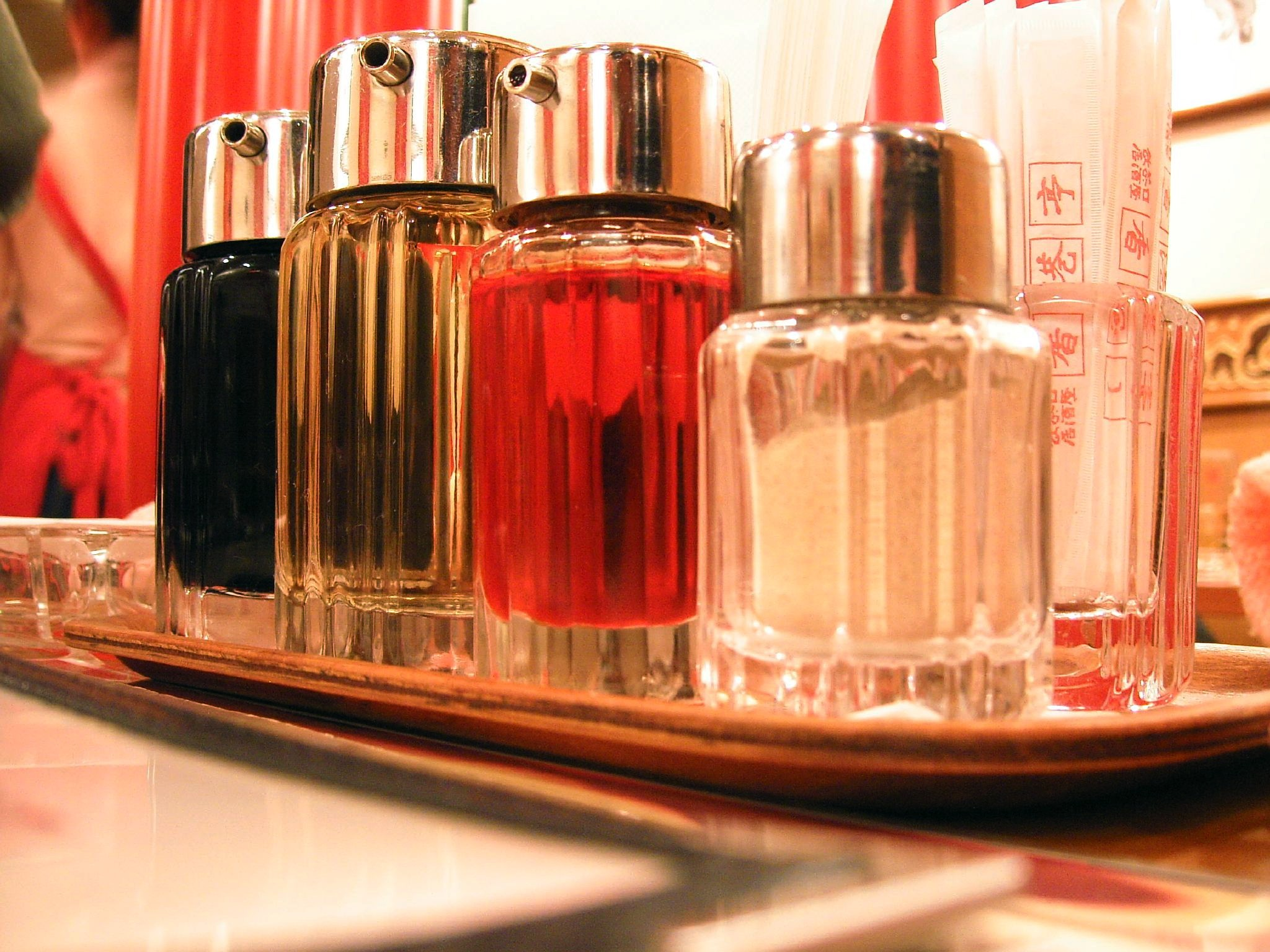 Hong Kong Tei...The best Chinese place in Nerima. Try the spareribs, they're outstanding.香港亭。練馬区の一番旨い中華料理家さん。 スペアリブがおすすめ。